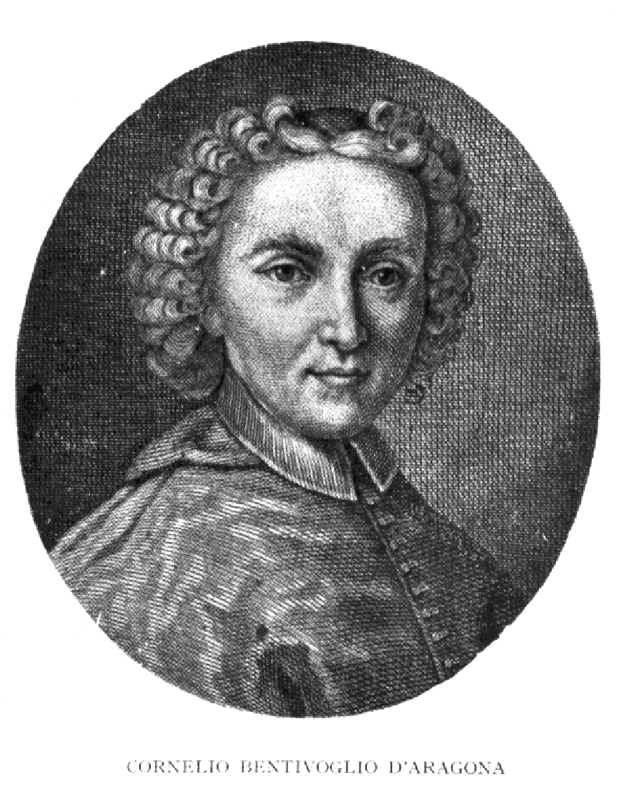 Portrait of Cornelio Cardinal Bentivoglio d'Aragona.